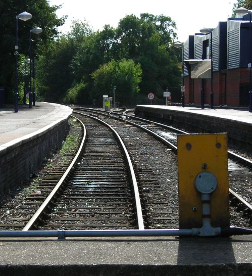 Bourne End Railway Station, Buckinghamshire, UK